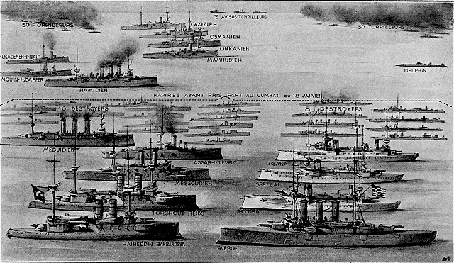 Comparison between the Ottoman and Greek fleets during the First Balkan War, 1912-13